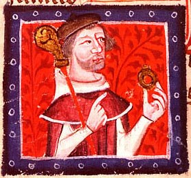 Henry of Blois; British Library, MS Nero DVII, f.87v; for more info